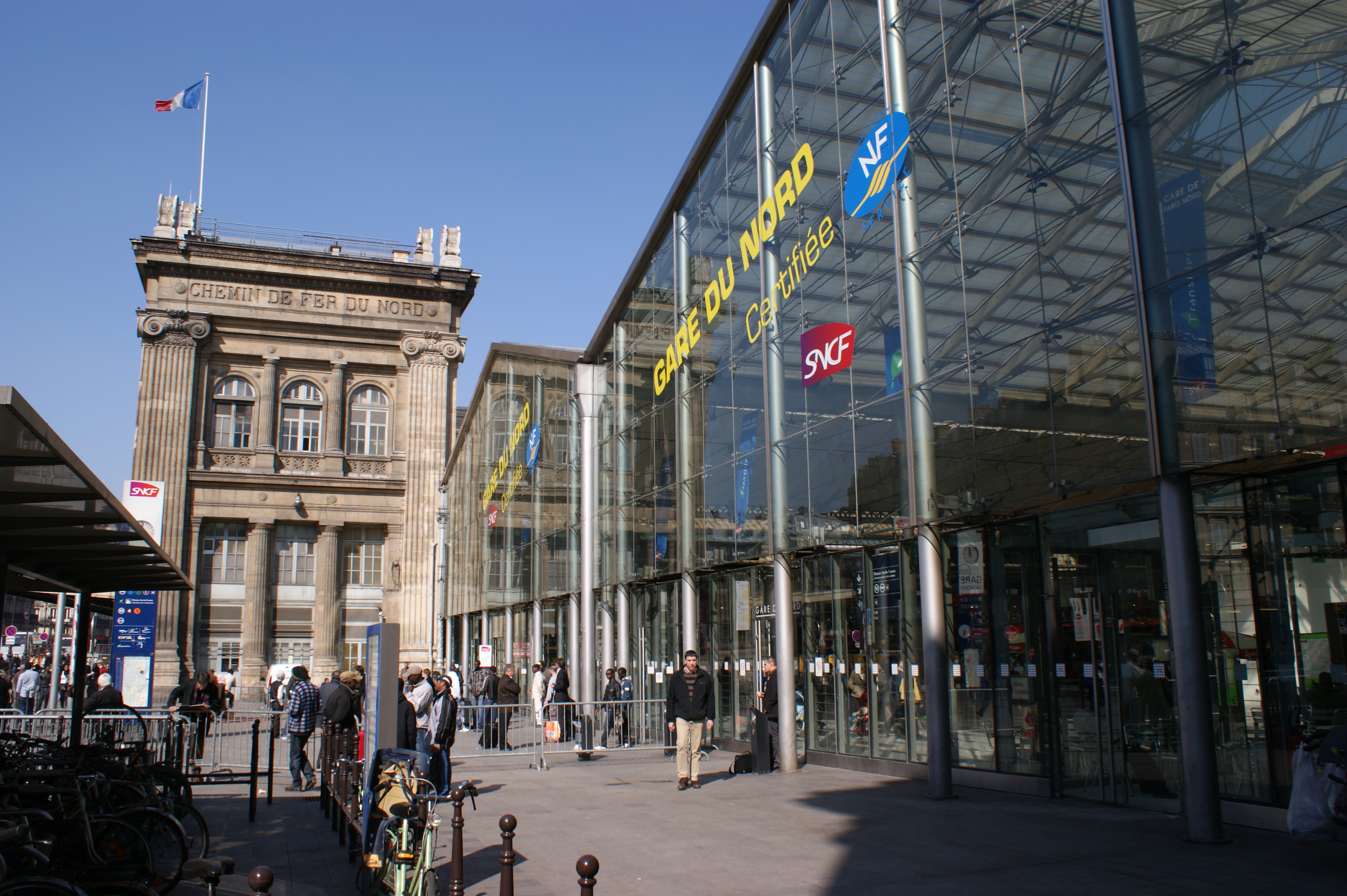 The new frontage of Gare du Nord, 4/09.